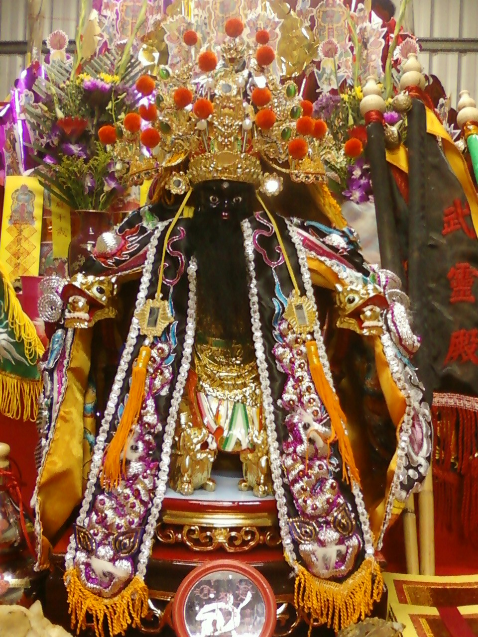 北邑三池府